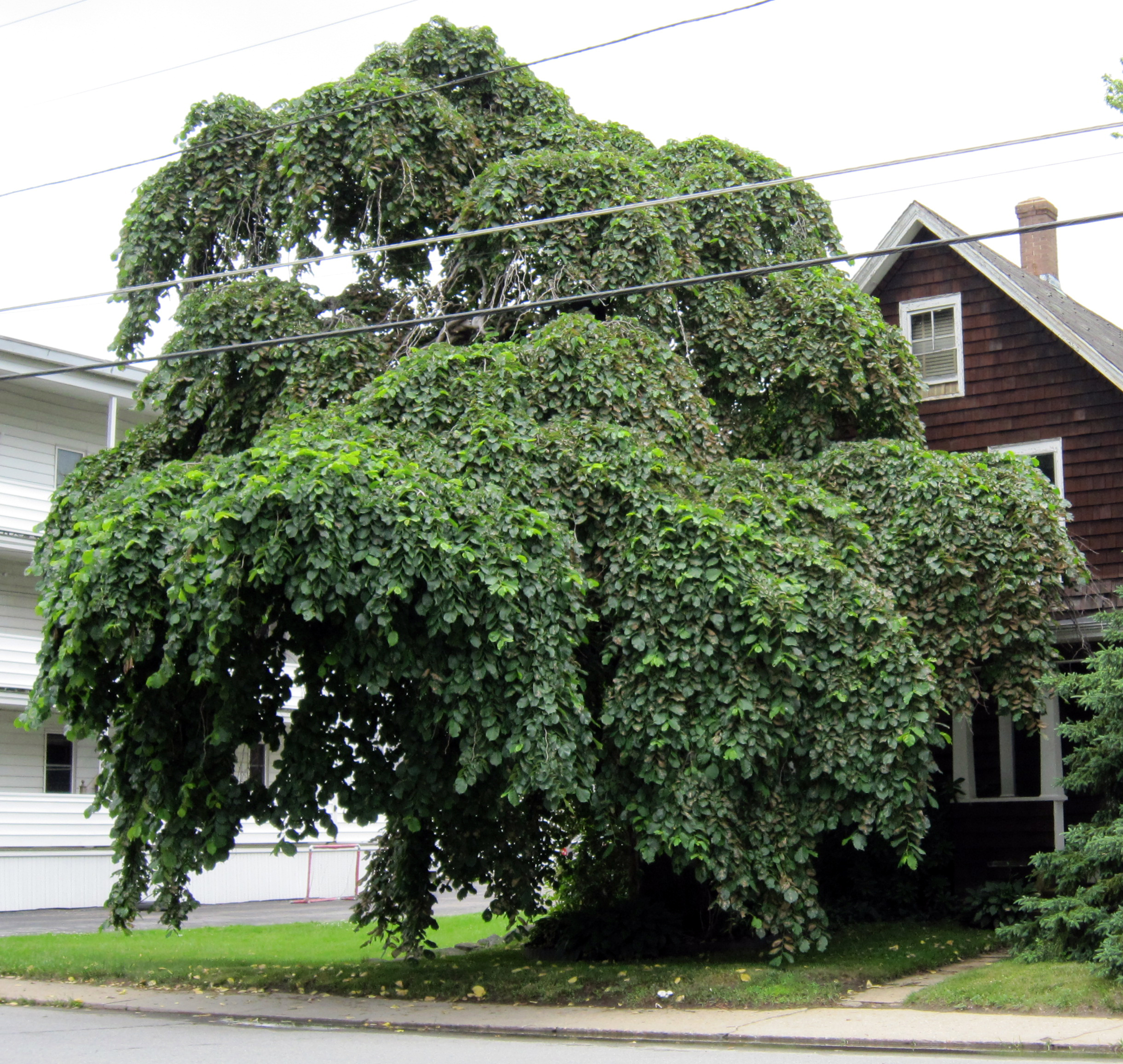 Notable Camperdown Elm on Parker Street, Gardner MA 01440.